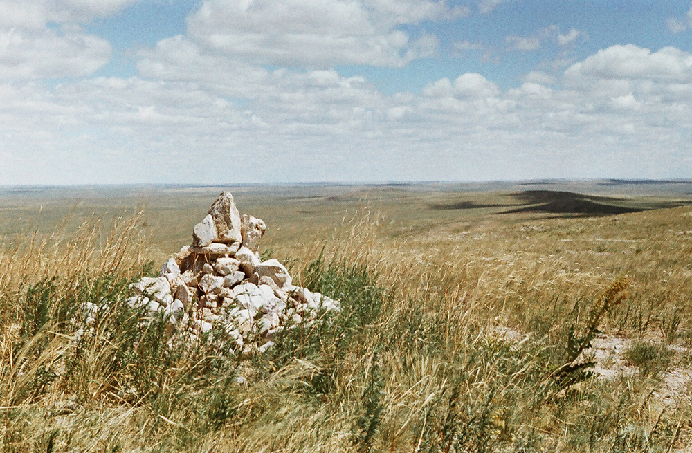 Obo in Mongolian steppe, Sukhbaatar aimag, 1972.